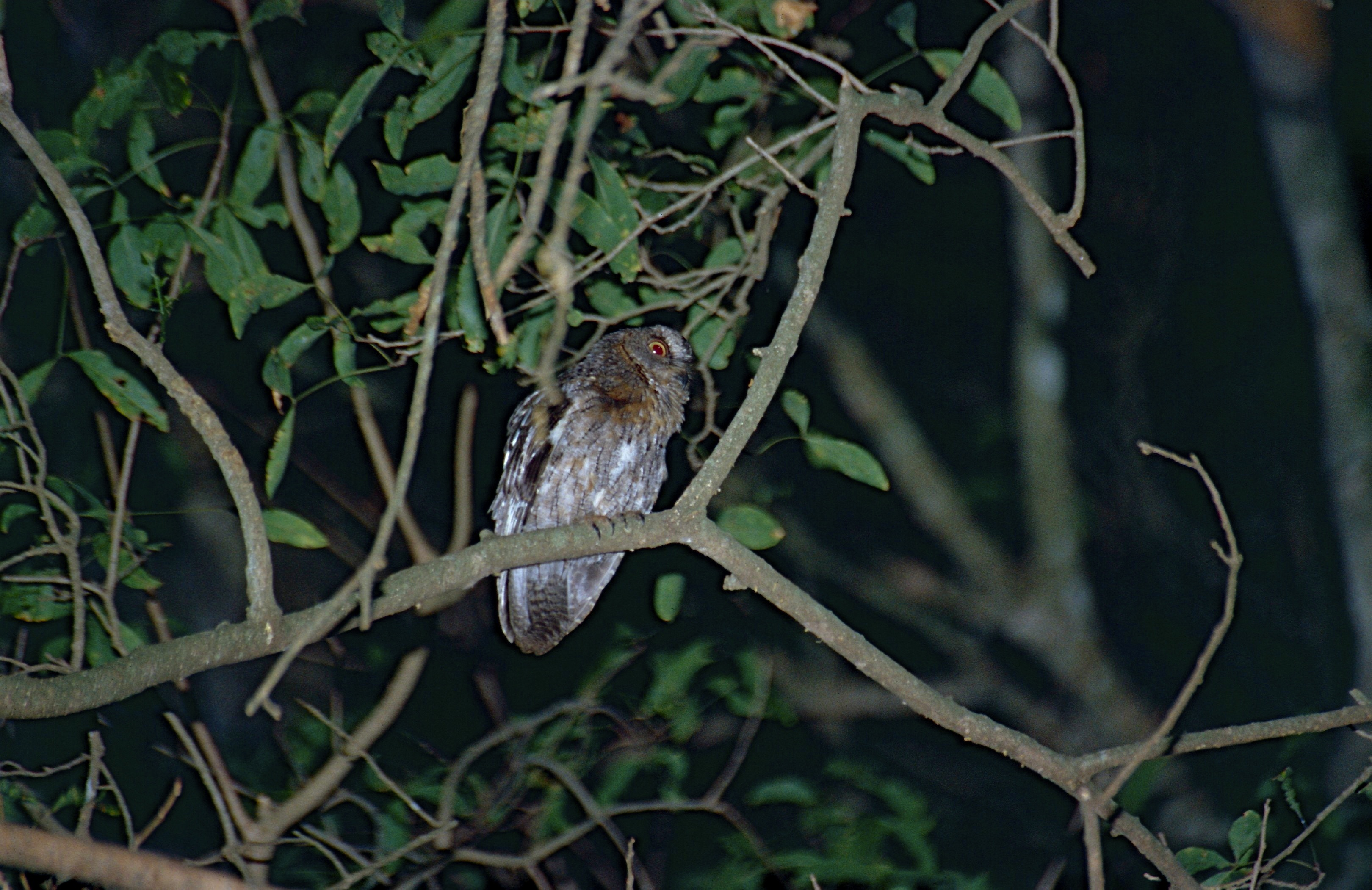 Réserve de Berenty, Amboasary Sud, MADAGASCAR Scanned Slide from 1998